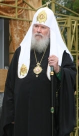 Patriarch Alexius II of Russia